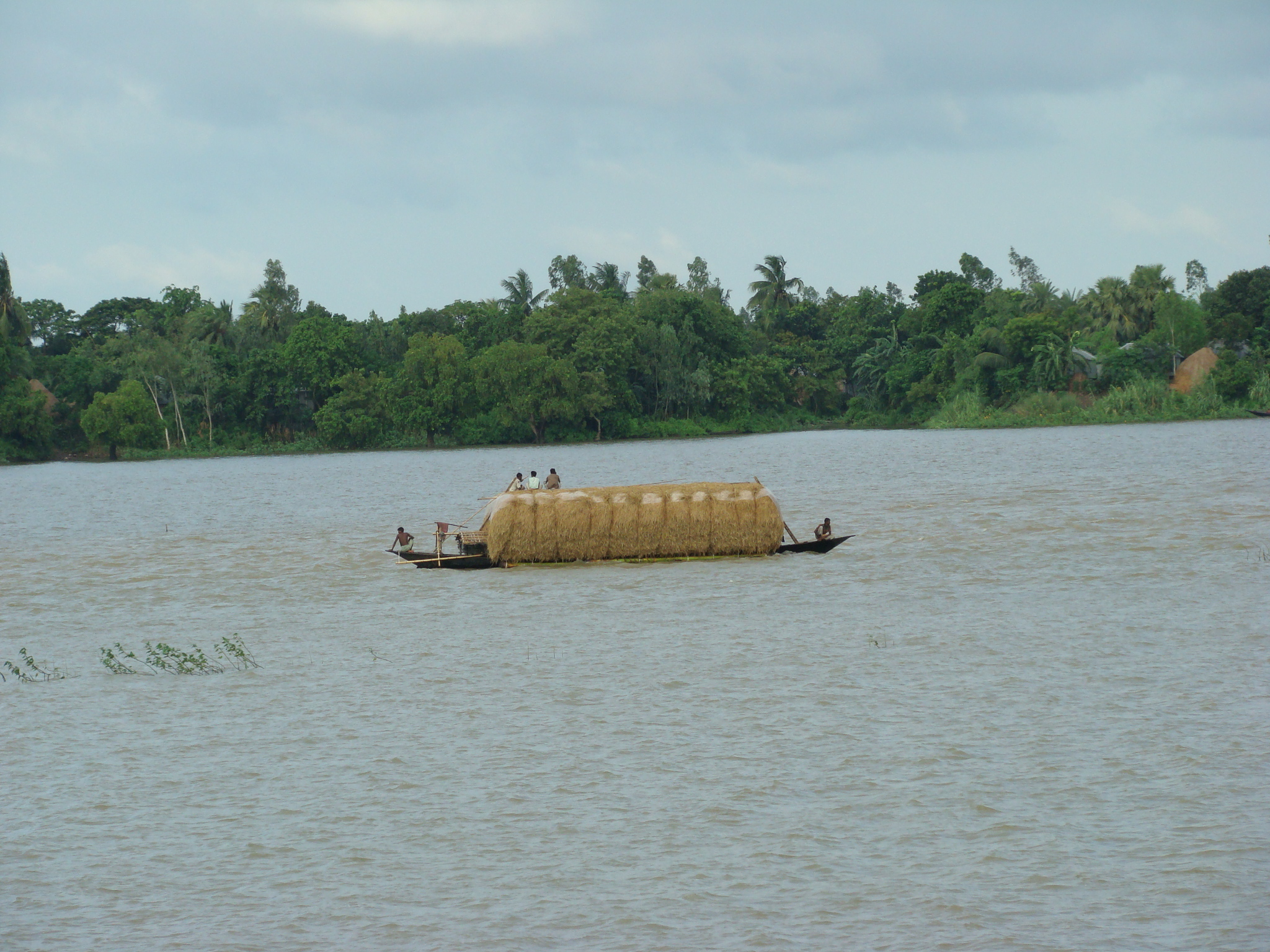 Chalan Beel Natore Bangladesh